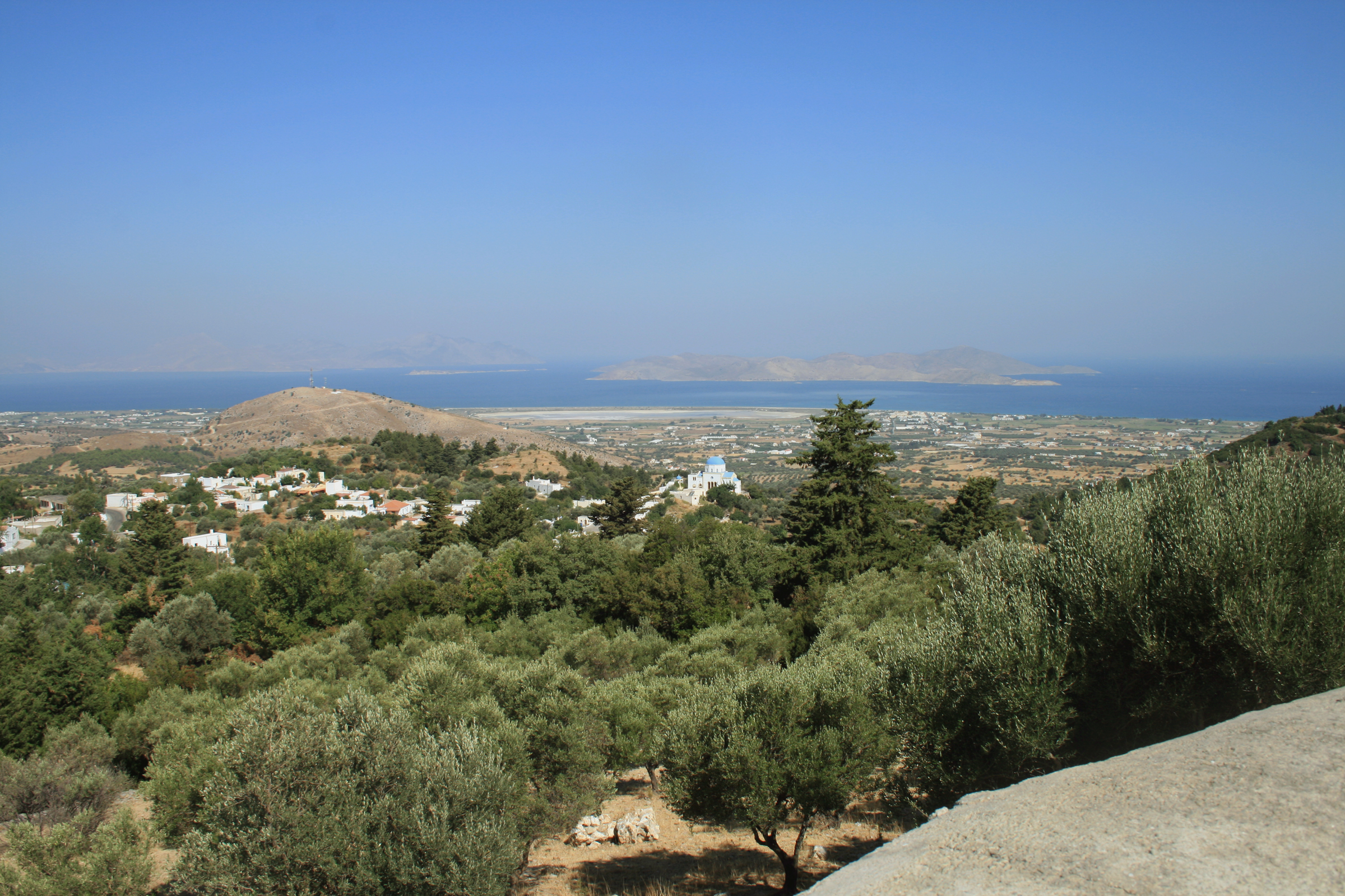 View to one of 3 monasteries near of Zia town on Kos island (Greece)